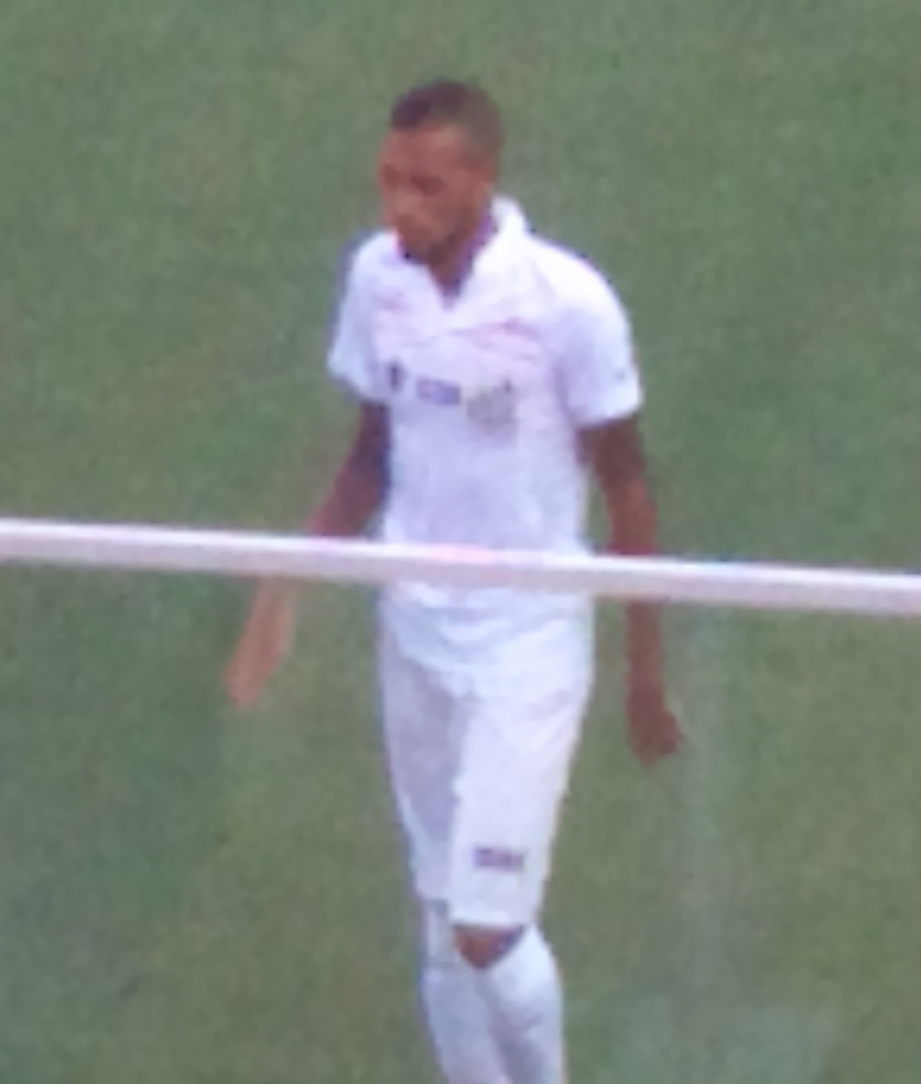 Paulinho playing for Santos against São Bernardo on 30 January 2016, at the Vila Belmiro.